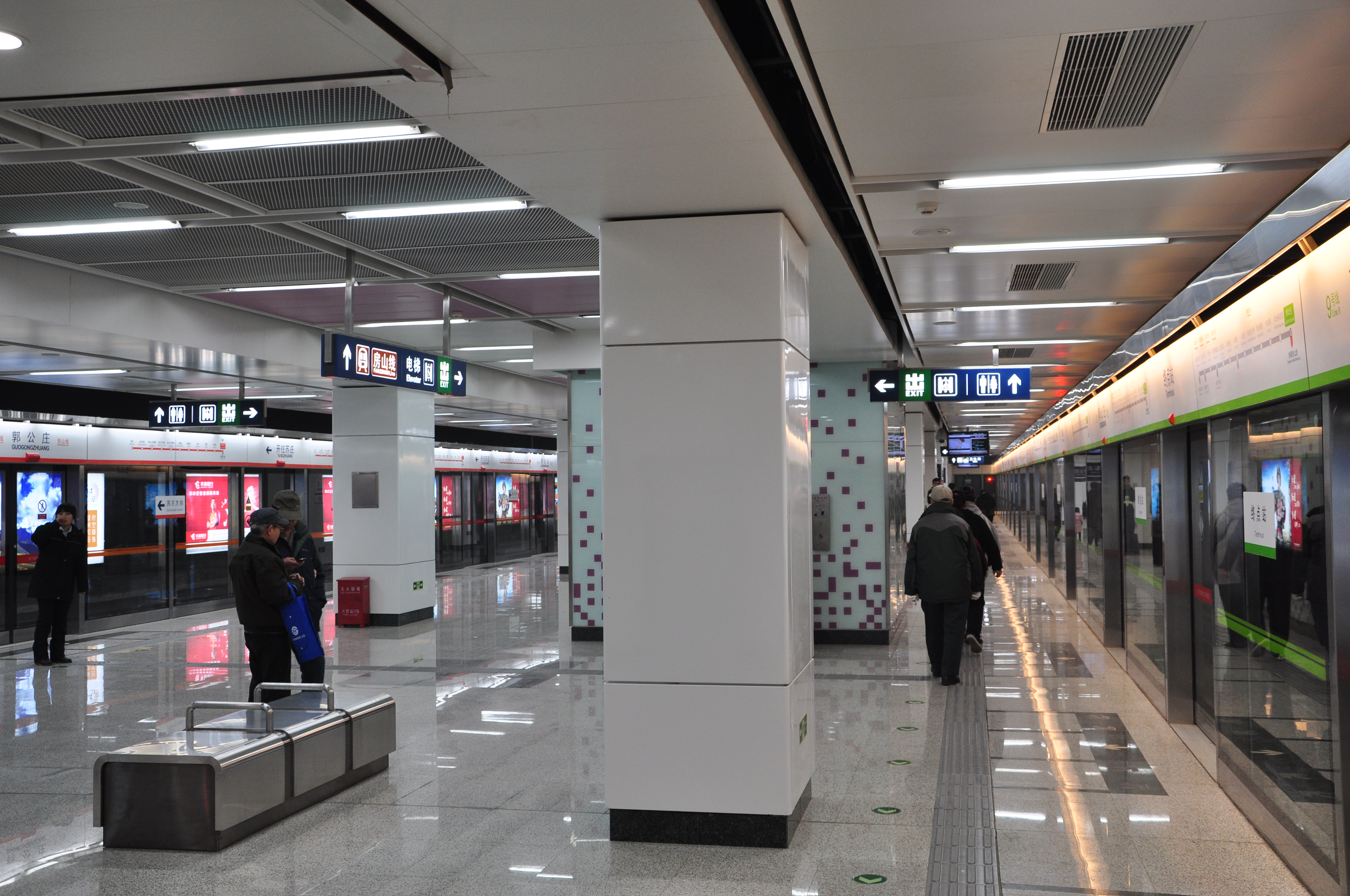 The platform of Guogongzhuang station, Line 9 & Fangshan Line, Beijing Subway.